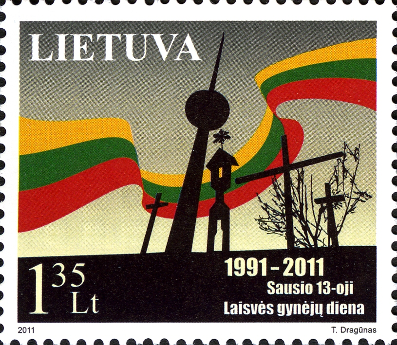 Stamps of Lithuania, 2011